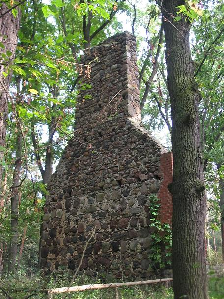 Ruin of the stonechurch in the abandoned village Dangelsdorf, situated in the forest „Nonnenheide“; built probably in the first half of the 14th century. In the south of the abandoned village was founded a new village Dangelsdorf, which is today a part of the municipality Görzke in the district Potsdam Mittelmark, state Brandenburg, Germany. The village appertains to the nature park Naturpark Hoher Fläming.